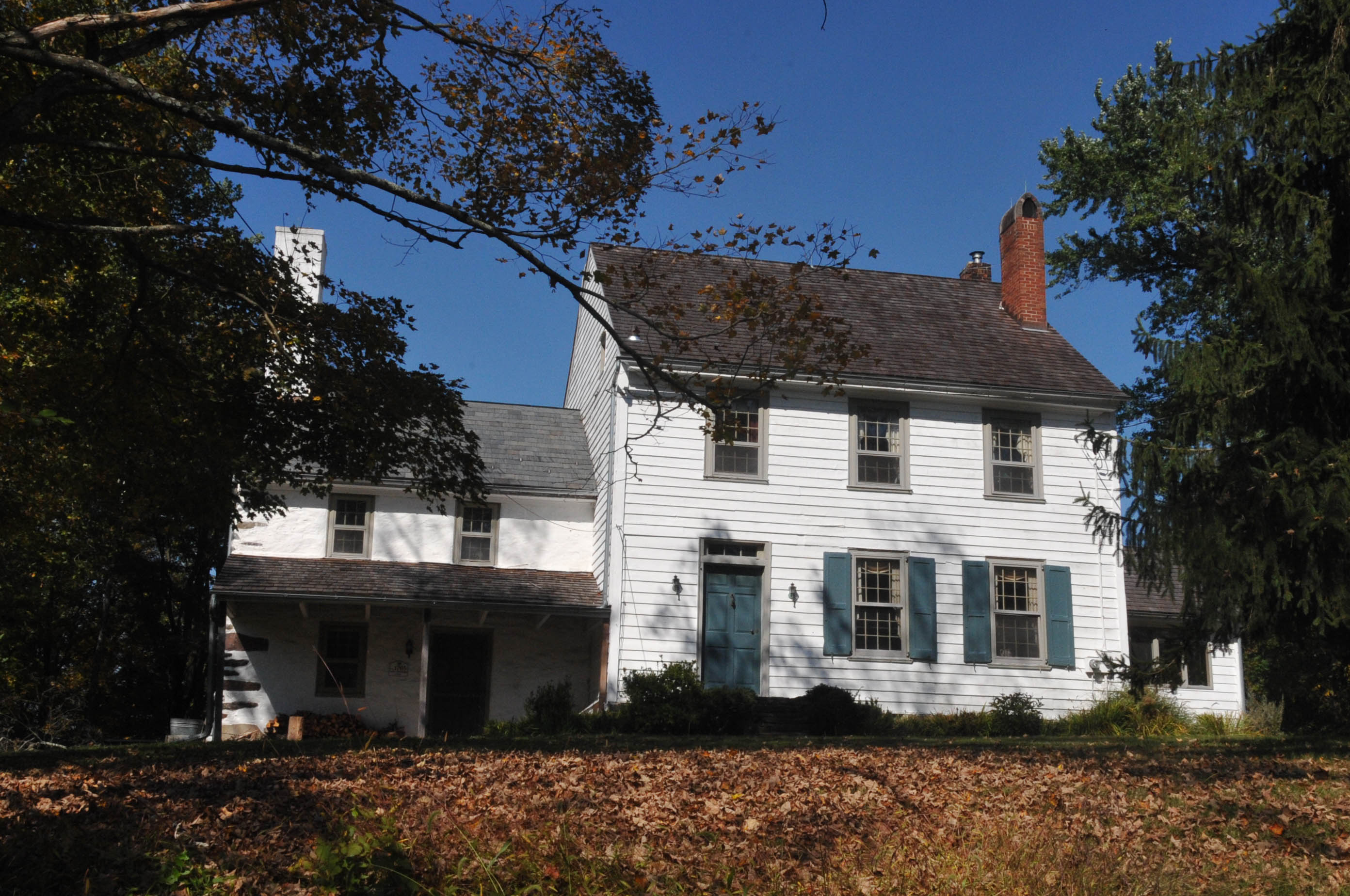 CIRCA 1765 OR 1785; LOCATED IN PLEASANT VALLEY HISTORIC DISTRICT ON PLEASANT VALLEY ROAD; THIS IS AN EXAMPLE OF A COW AND CALF BUILDING FORM. HENRY PHILIPPS WAS A SON (OR GRANDSON) OF JOSEPH PHILIPPS WHO OWNED ALL OF THE GROUND IN THIS AREA AS THE JOSEPH PHILIPPS FARM.